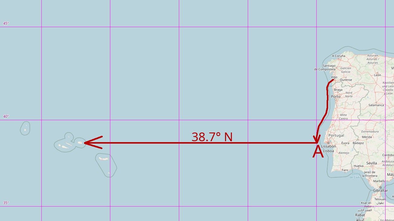 Latitude sailing (example)